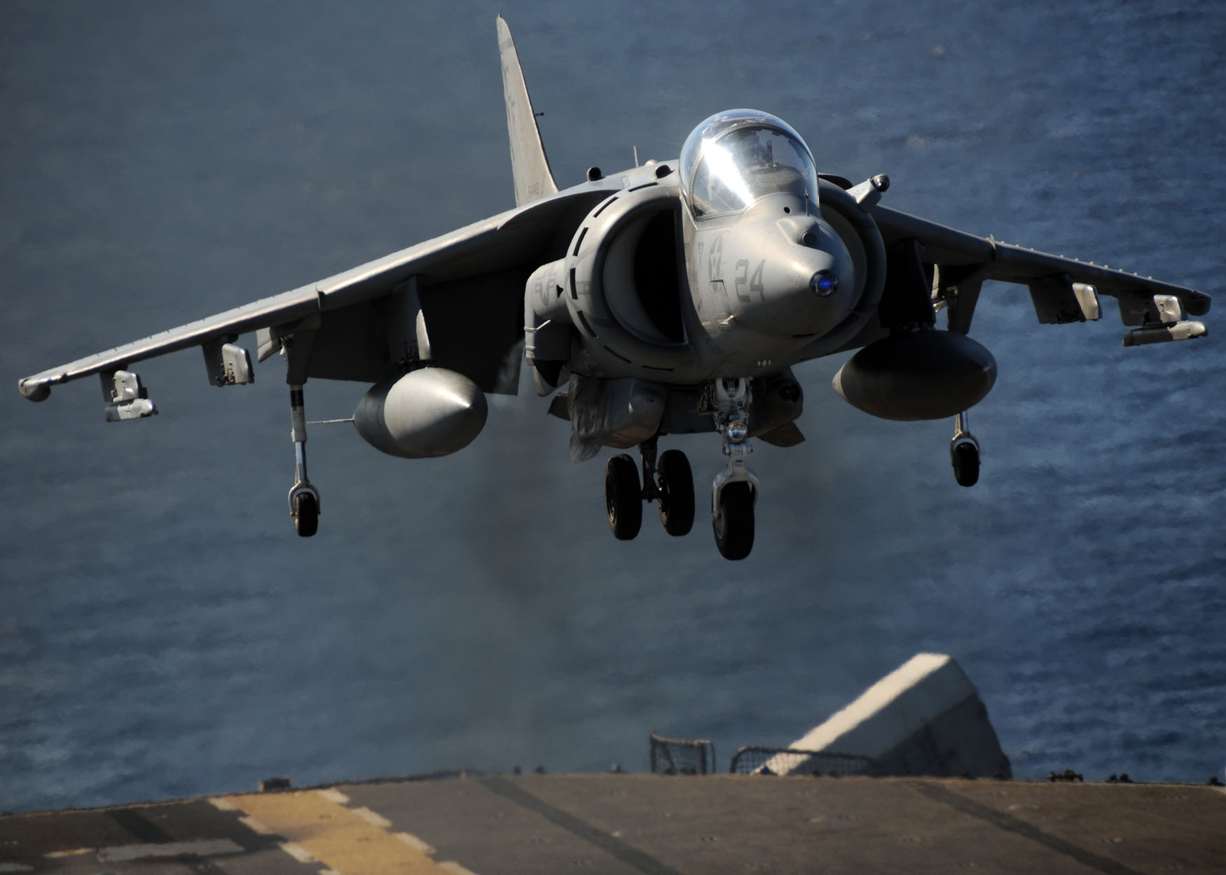 An AV-8B Harrier jet aircraft assigned to Marine Attack Squadron 211, embarked aboard the forward-deployed amphibious assault ship USS Essex (LHD 2), lands on the ship's flight deck while underway in the Coral Sea during a deck landing qualification evolution on July 7, 2009.